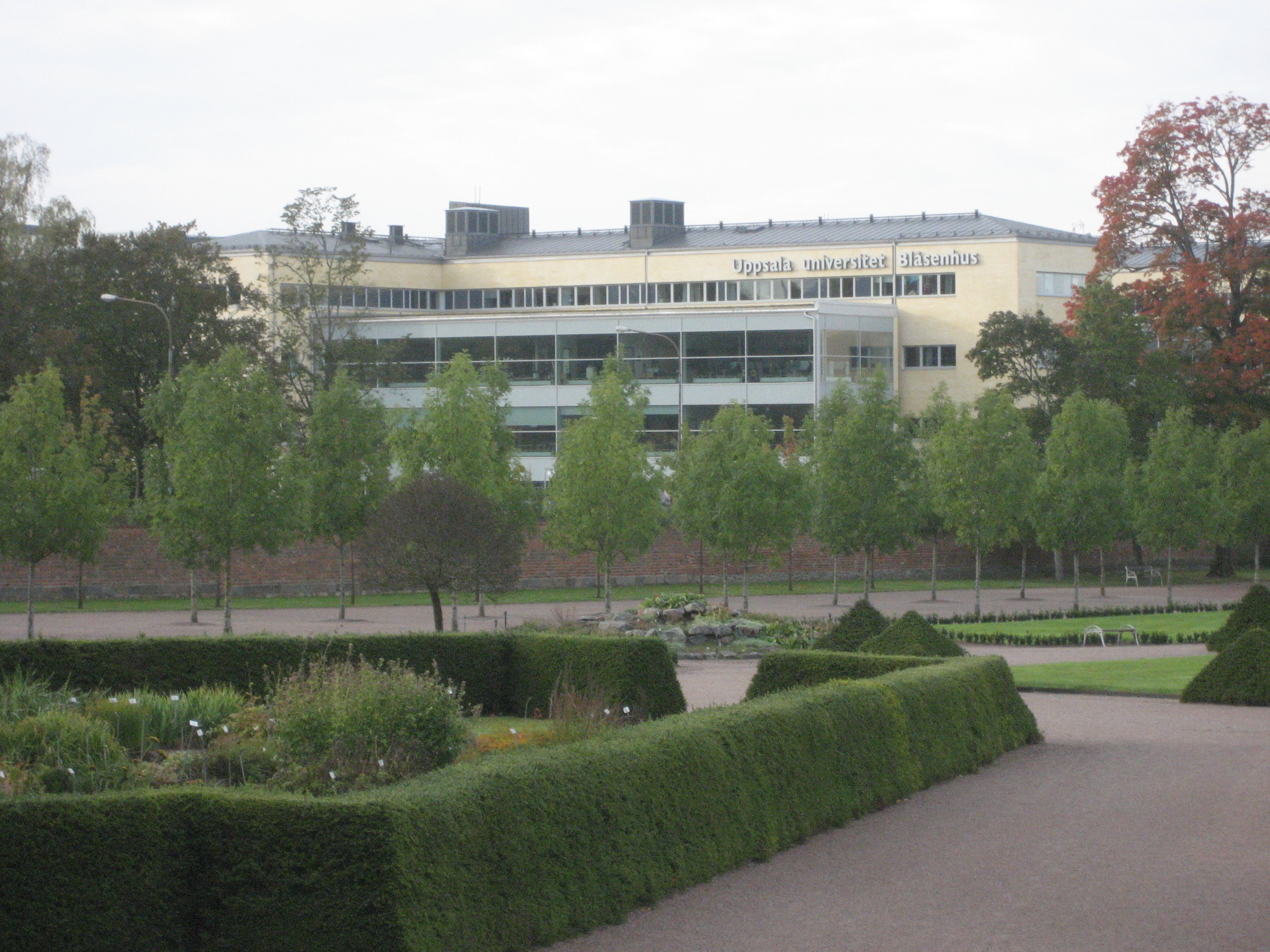 Blåsenhus, Uppsala University (Sweden)